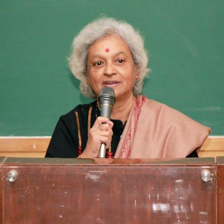 CS Lakshmi